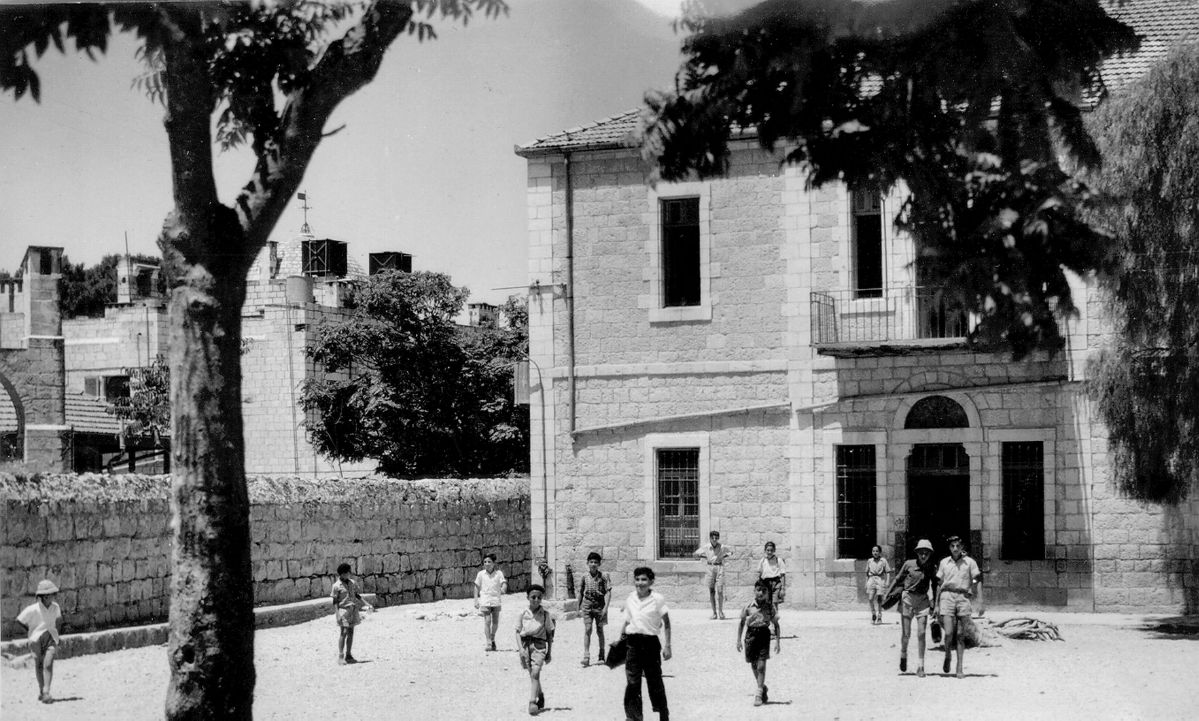 Doresh Zion school's playground and pupils in Jerusalem The David B. Keidan Collection of Digital Images from the Central Zionist Archives: Photographs on the History of Zionism and Israel. (metadata: Harvard-Littauer Judaica Endowment) Central Zionist Archives